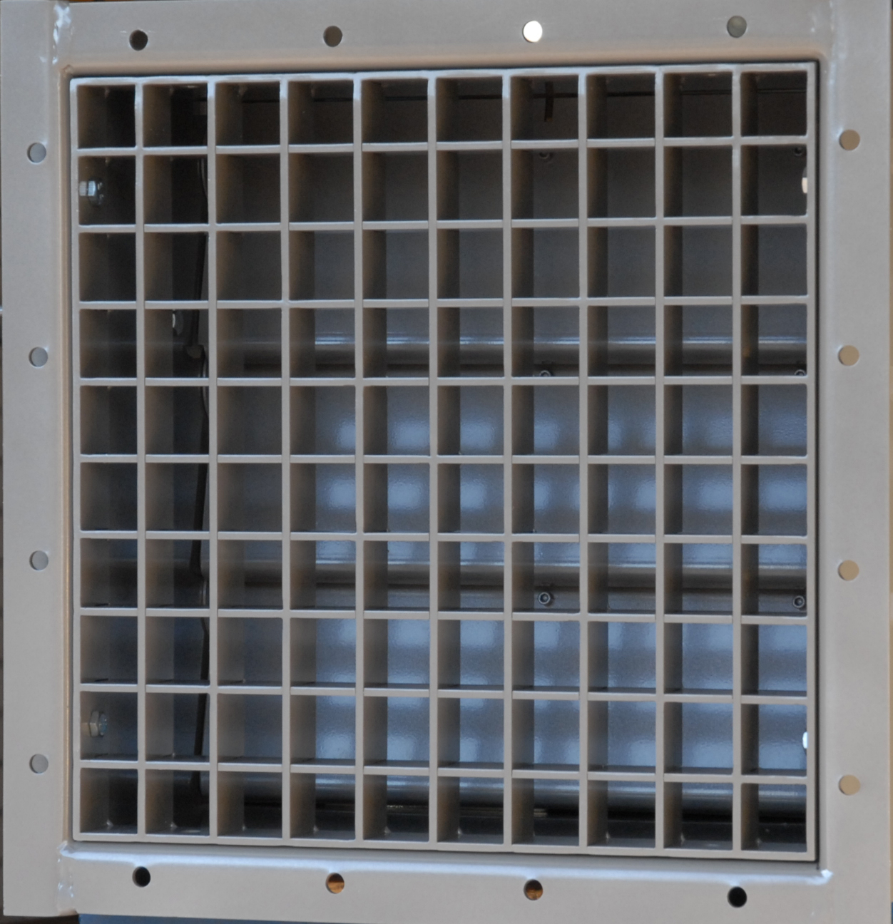 Temet HV Blast Damper showing impact grill and blast damper blades.